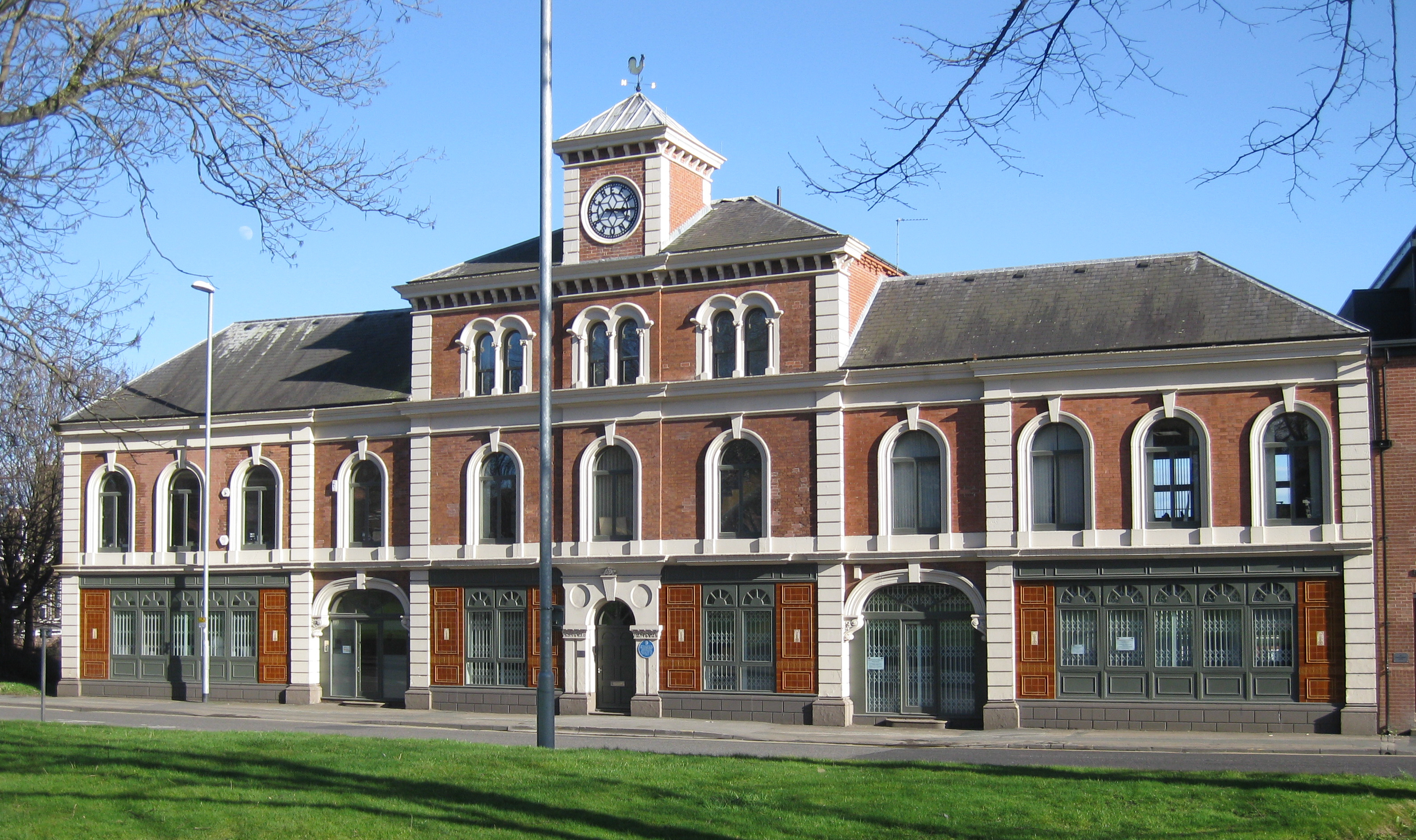 Smithfield Hotel (1860 to 1900), later the offices of Smithfield Iron Works of Thomas Green & Son (till 1975), North Street, Leeds. Symmetric 3-storey building of brick and stone detail with two 2-storey wings, and a clock tower bearing the words "T GREEN & SON" in place of numbers. The clock is by Potts of Leeds. Arched windows, central portico. Two arches were entrance gates leading to the rear. Part-faced with brown salt-glazed tiles and decoration. Blue plaque is visible.